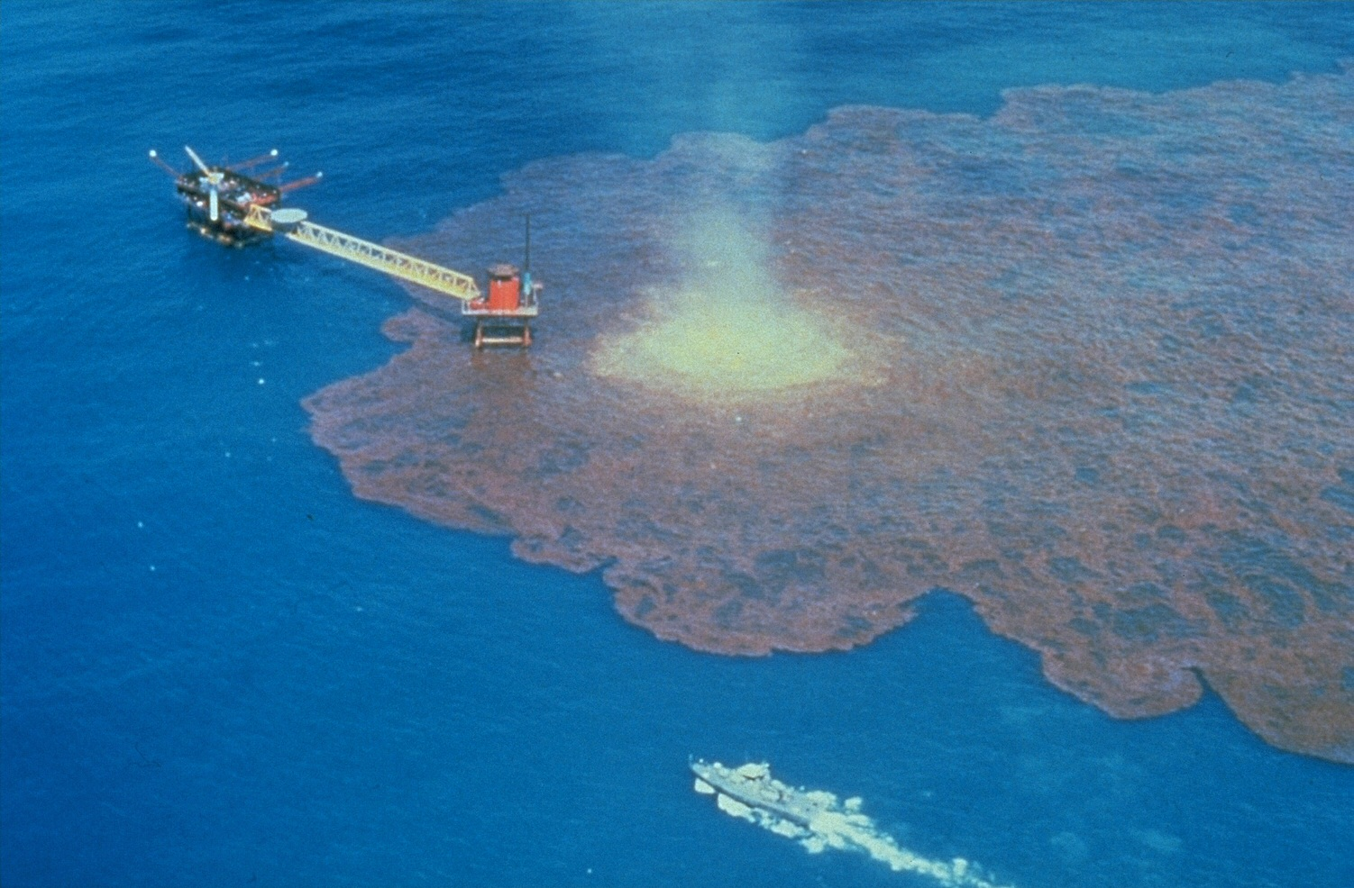 Ixtoc I oil well blowout.